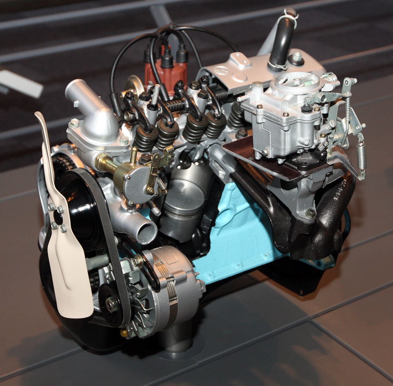 1966 Toyota K Type engine. L4 1,077cc.